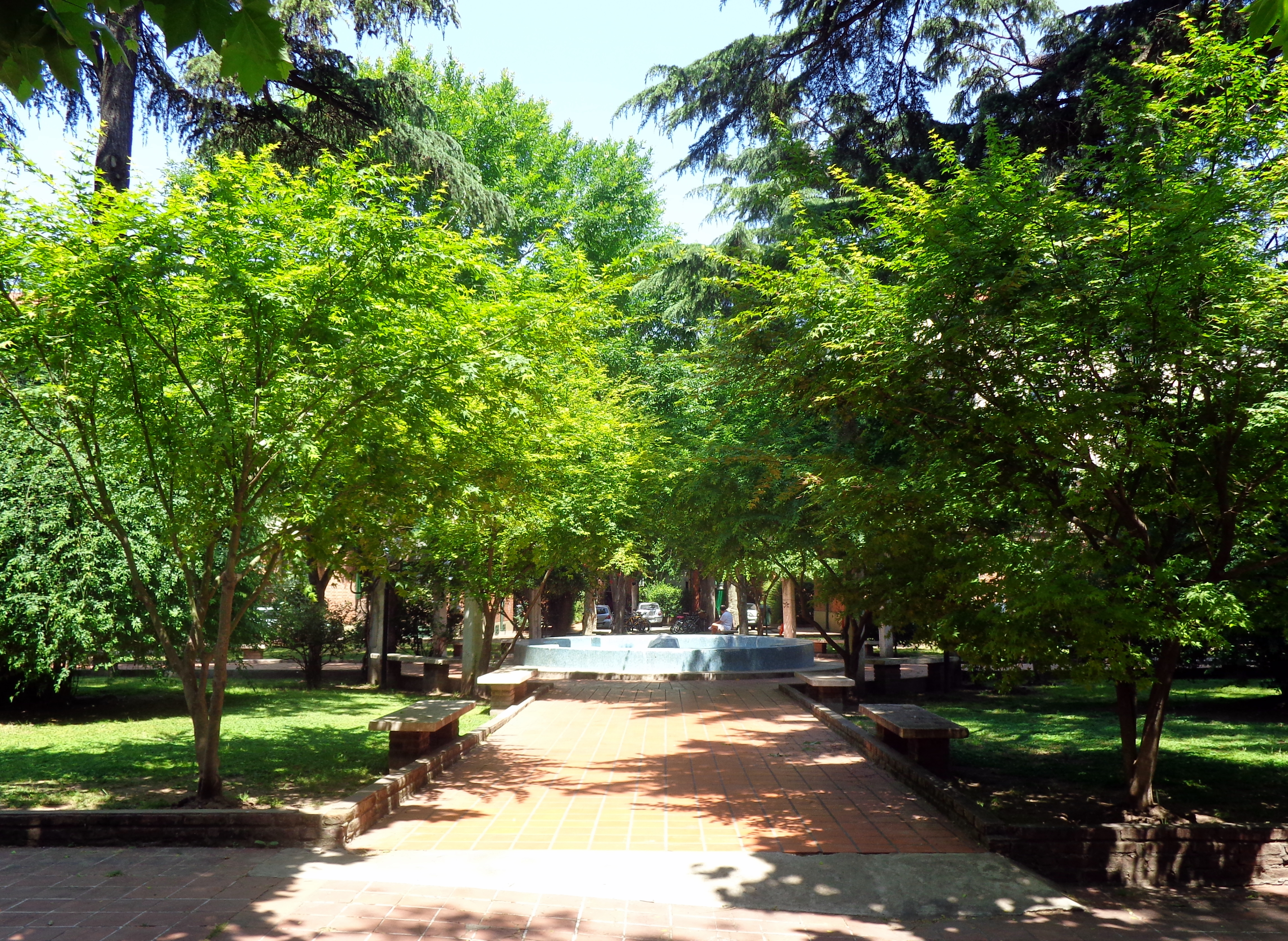 Parque Los Andes House Collective, a micro neighborhood built by the City of Buenos Aires between 1926 and 1928 in Chacarita, Buenos Aires, Argentina.